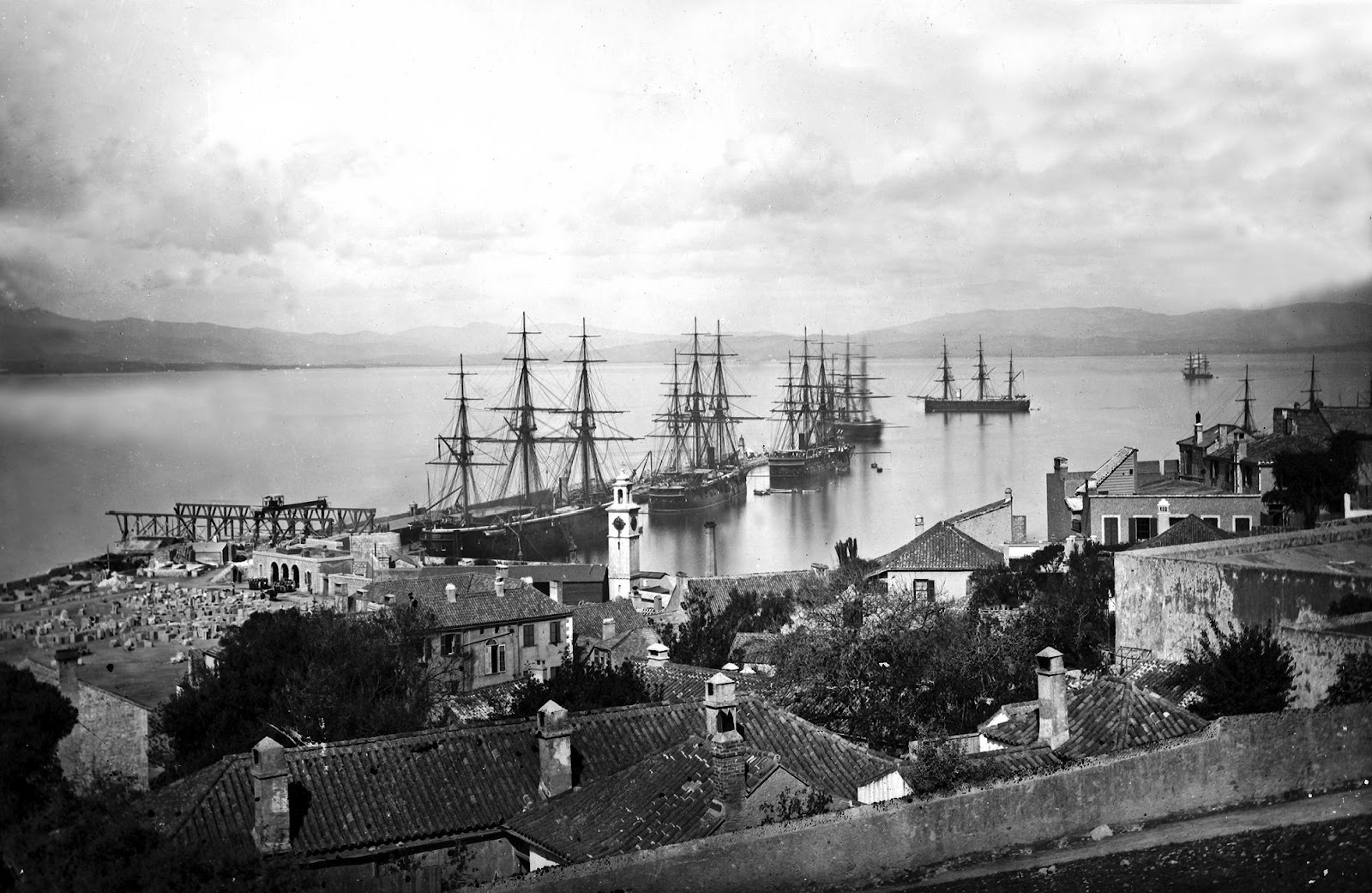 New or South Mole. Photograph from c. 1880 byGeorge Washington Wilson (died 1893) of a place in Gibraltar - images found by Neville Chipolina